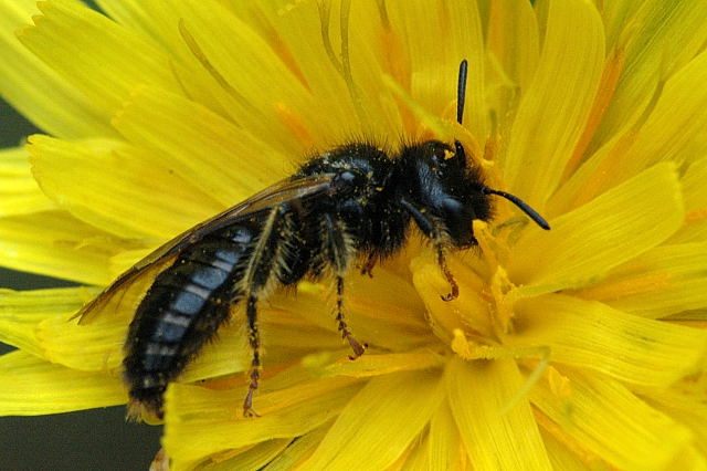 Panurgus banksianus from Commanster, Belgian High Ardennes .